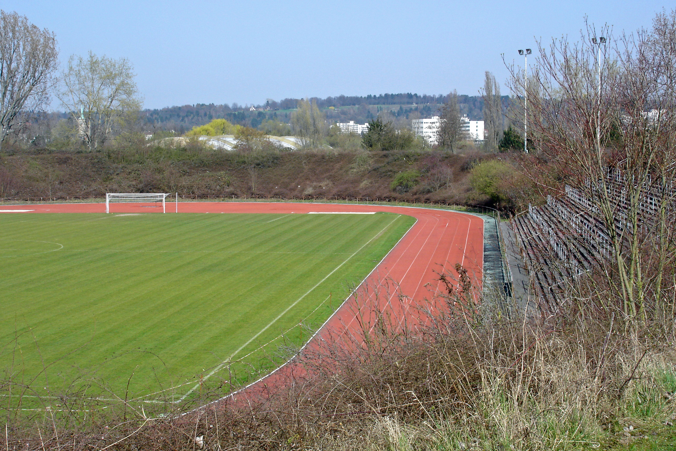 Sports ground Stadium at Riederwald of Eintracht Frankfurt in the borrough of Seckbach in Frankfurt, Hesse, Germany